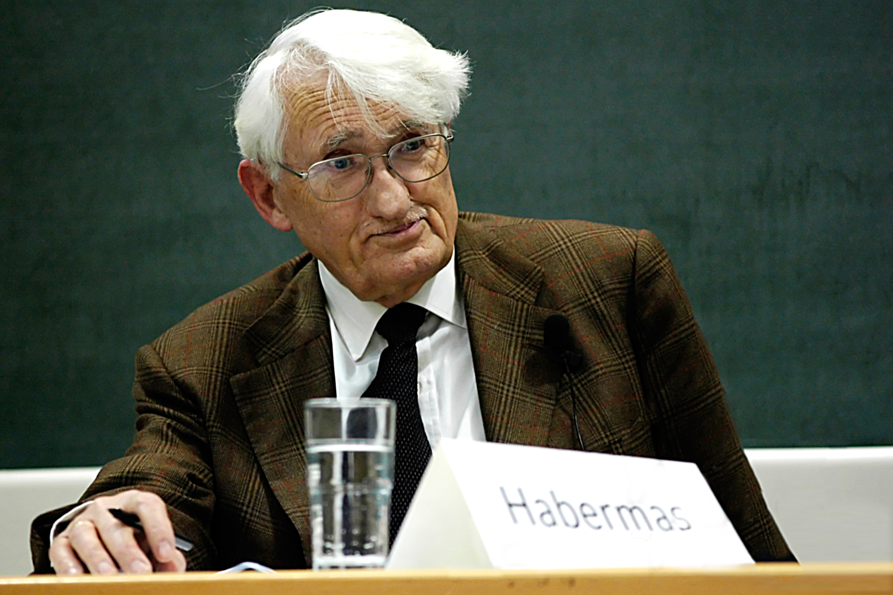 Jürgen Habermas during a discussion in the Munich School of Philosophy